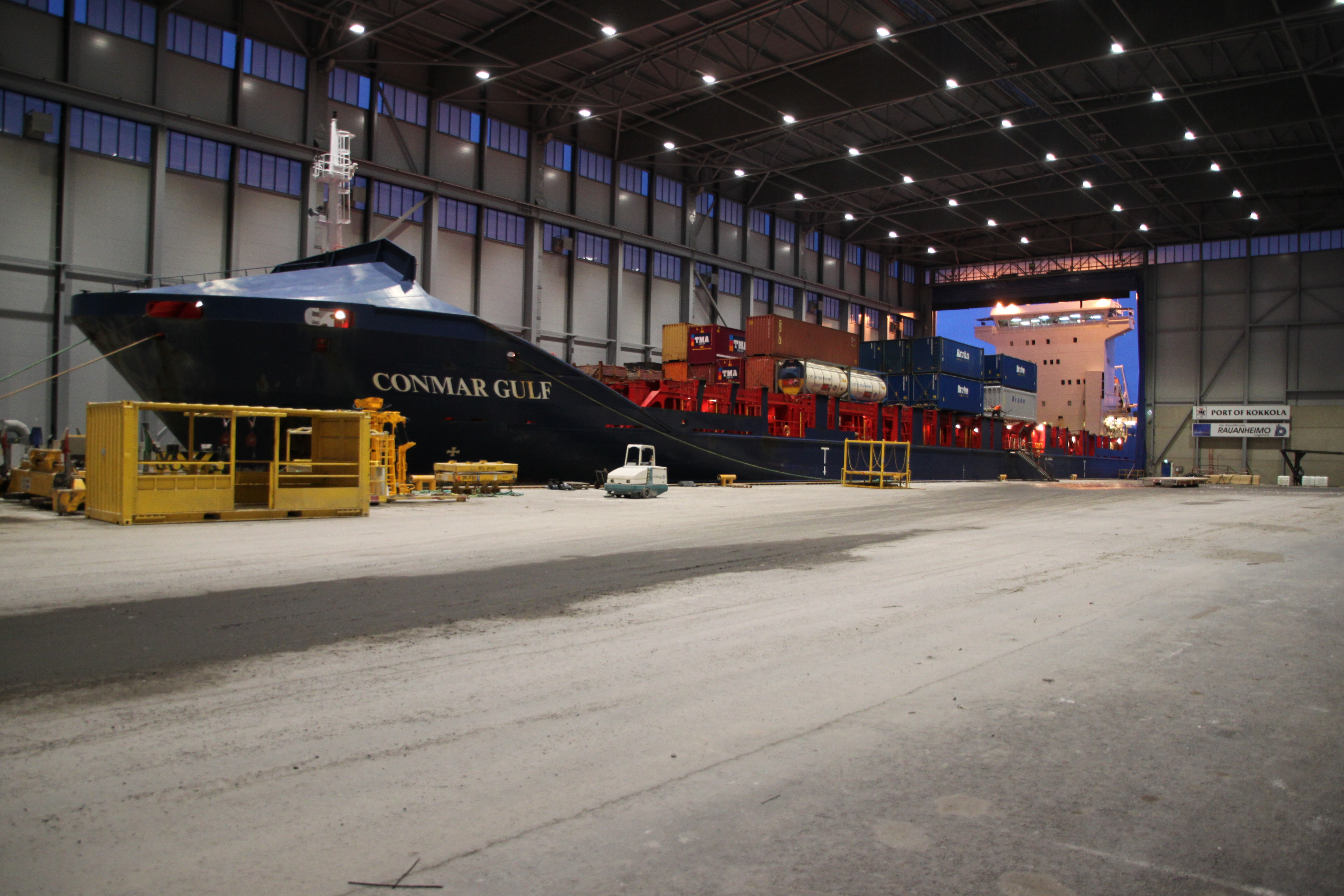 CONMAR GULF in the AWT (All Weather Terminal) in Port of Kokkola (Finland)